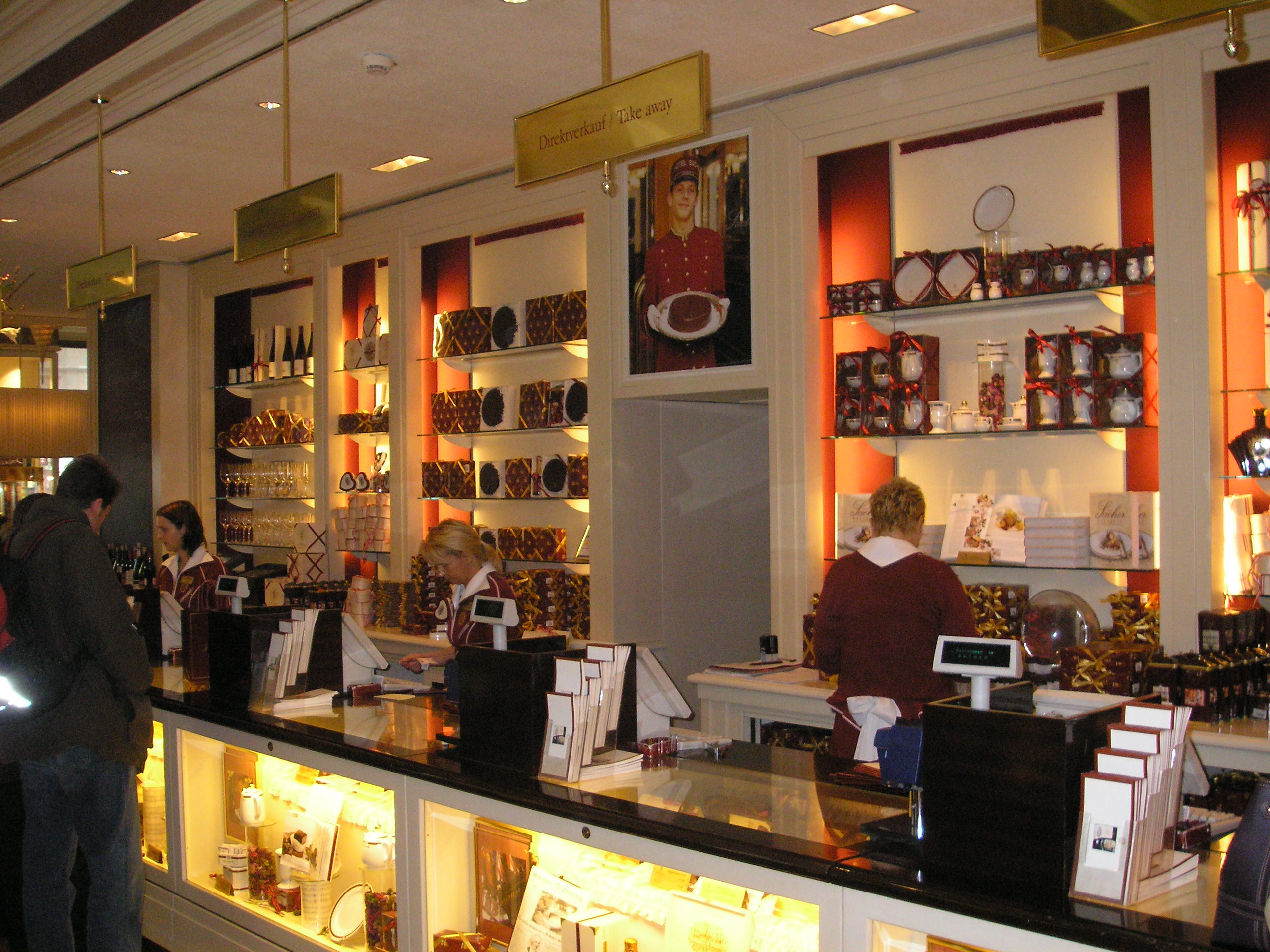 Description: Shop in the Café Sacher in Vienna. Source: self-made, I release it into the public domain. Gryffindor 22:29, 23 March 2006 (UTC)